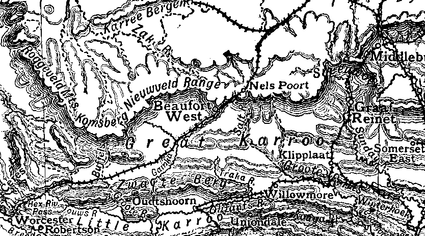 Map of Beaufort West and Great Karroo. 1911.